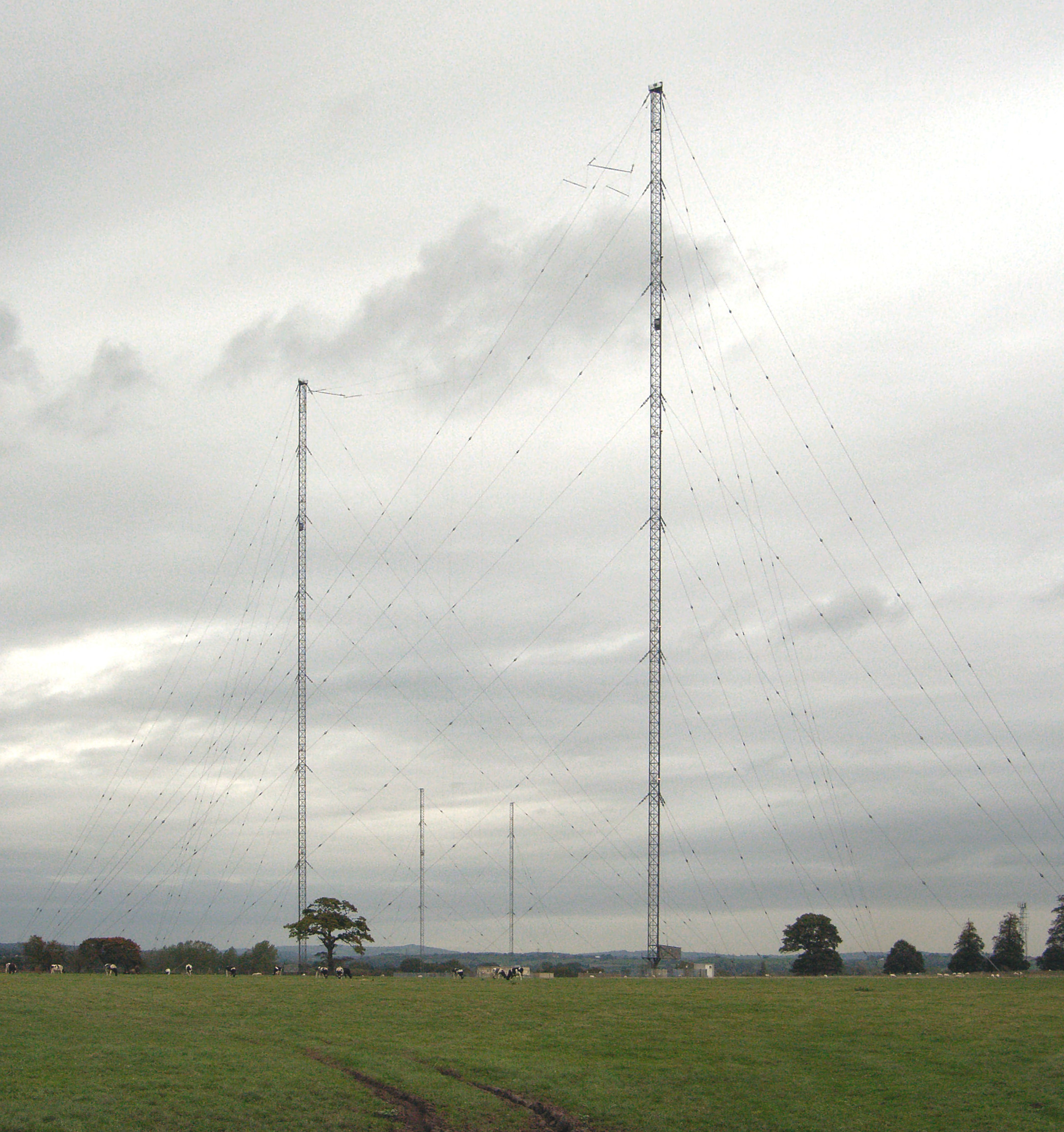 Droitwich transmitting station The carrier frequency is controlled by a rubidium atomic frequency standard in the transmitter building, enabling the transmission to be used as an off-air frequency standard.